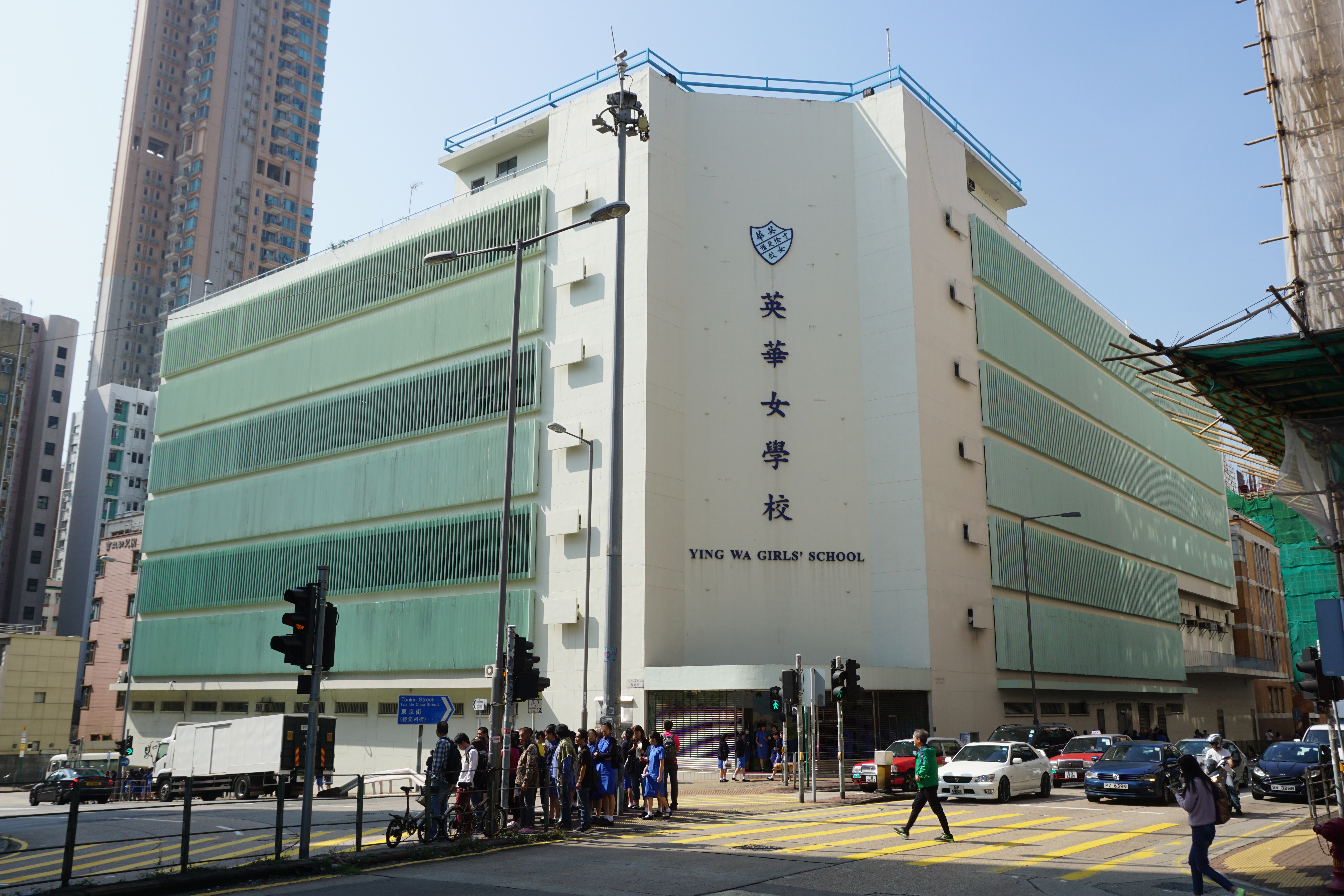 Ying Wa Girls' School Temporary Campus in Sham Shui Po, Hong Kong.